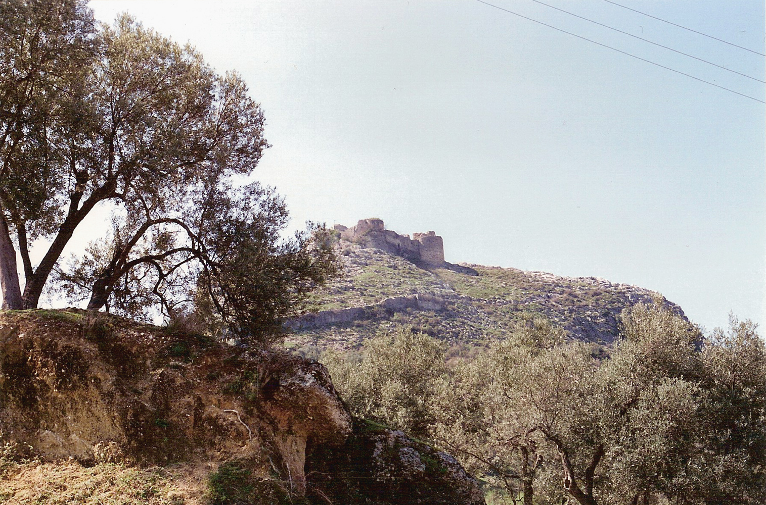 Castle Petrela in Albania south of Capital Tirana